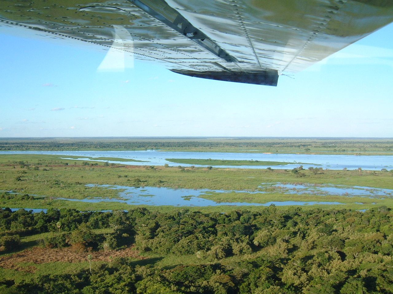 Paraguay Chaco, Rio Paraguay, Presidente Hayes Province